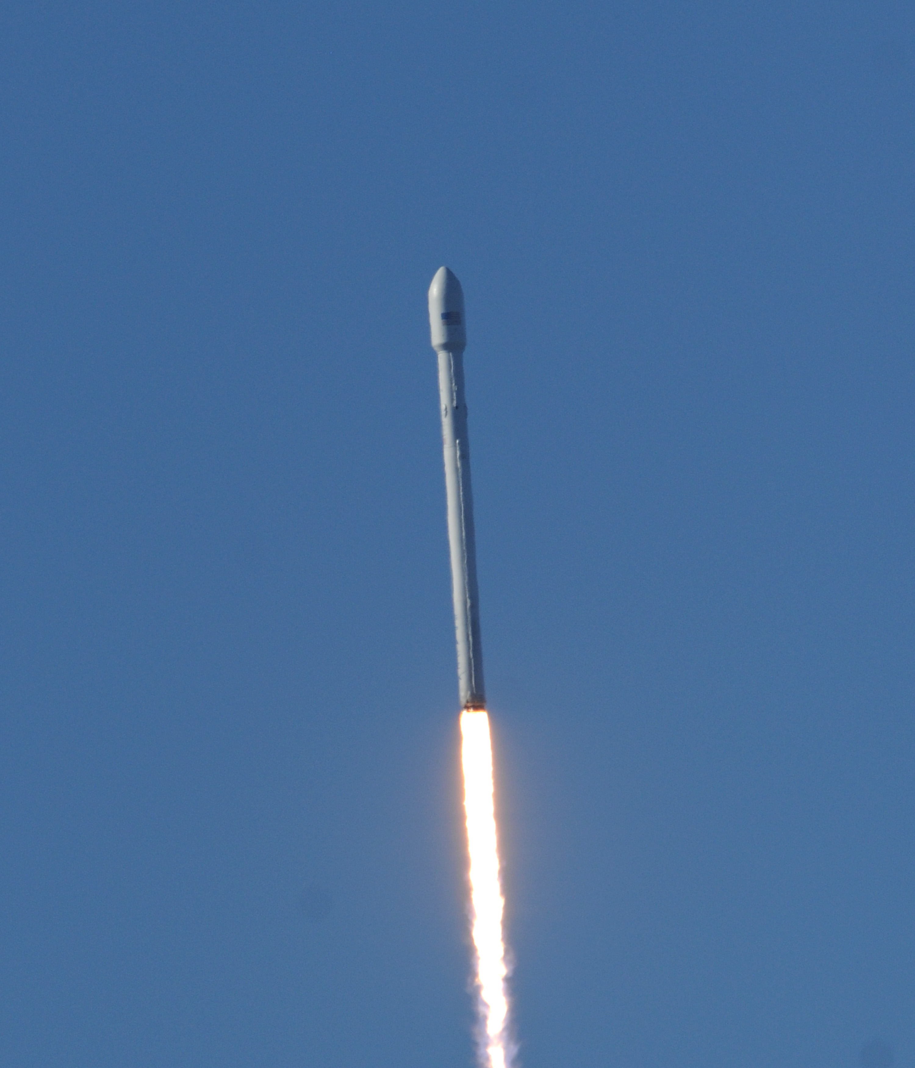 VANDENBERG AIR FORCE BASE, Calif. -- Team Vandenberg launches its first-ever SpaceX launch from Space Launch Complex-4 here Sunday, Sept. 29, 2013. 30th Space Wing's 1st Air and Space Test Squadron was the lead for all launch site certification activities at Vandenberg for SpaceX as an Evolved Expendable Launch Vehicle New Entrant. Under the authority of the Space and Missile Systems Center, the Squadron evaluated SpaceX's flight and ground systems, processes and procedures for this inaugural space launch campaign for the upgraded Falcon-9 rocket.